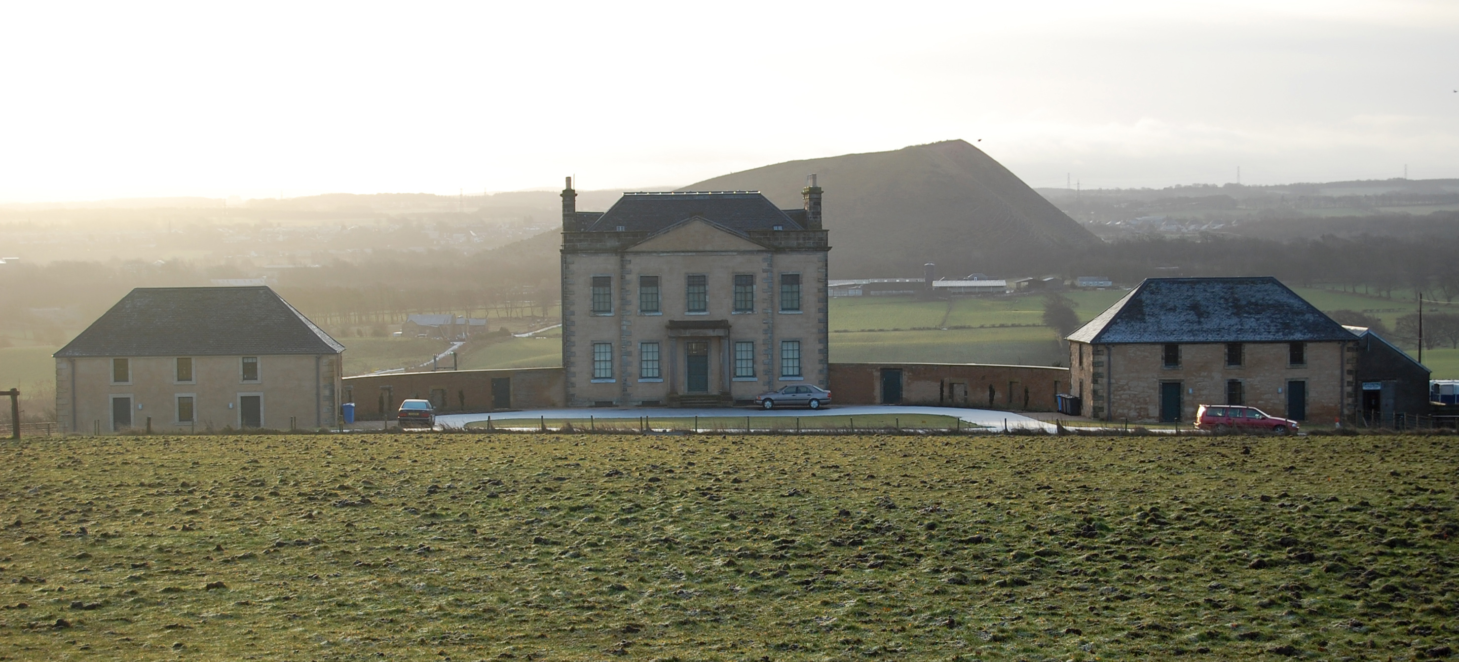 Photo of Blackburn House, Near Seafield in West Lothian, Scotland.